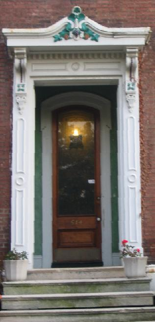 The front door of a house is often decorated to appear inviting.